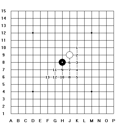 13 diagonal openings available in Renju